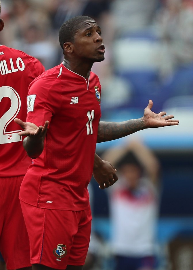 Armando Cooper